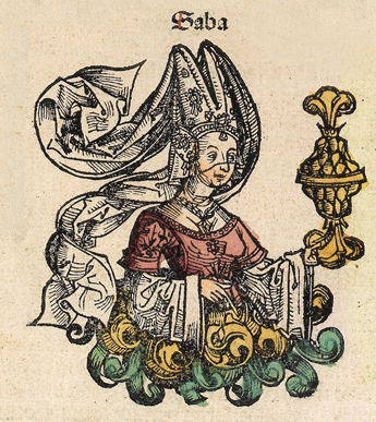 Woodcut from the Nuremberg Chronicle